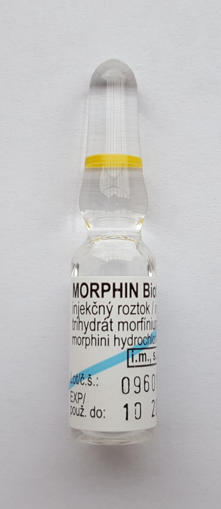 morphin 1% vial